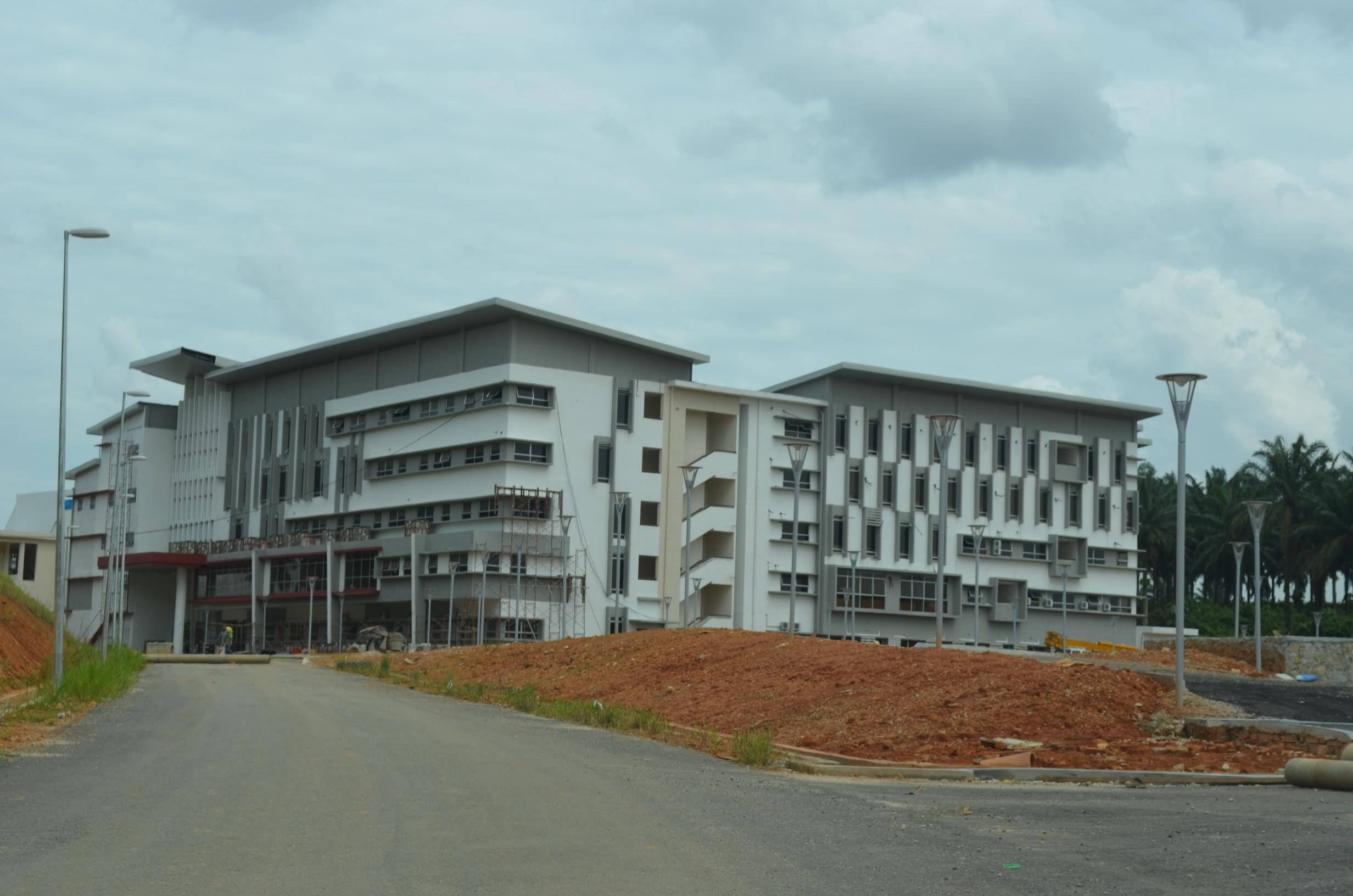 UTM Research Centre (4)